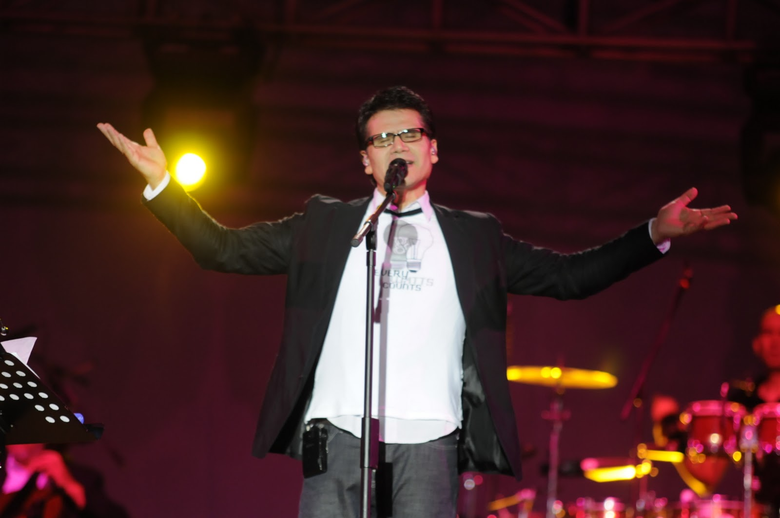 JAR en vivo